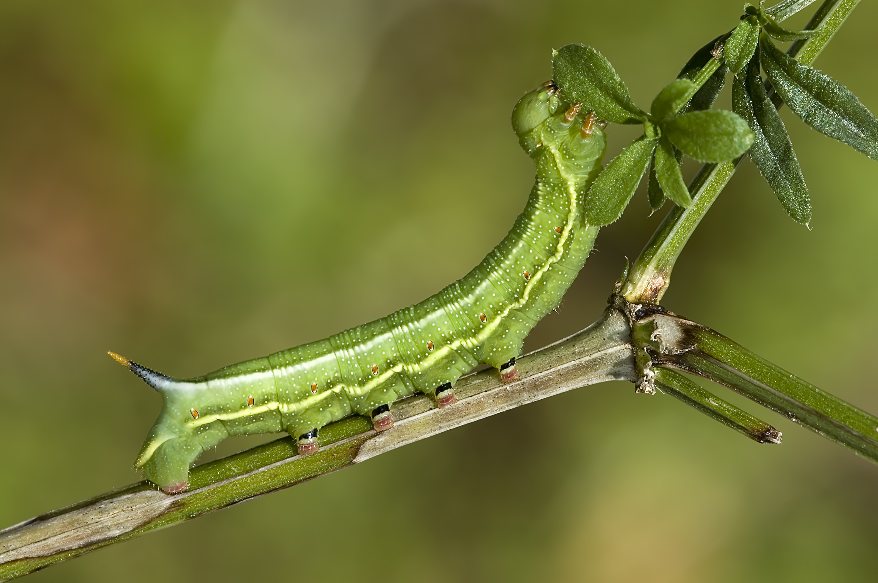 Hummingbird Hawk-moth